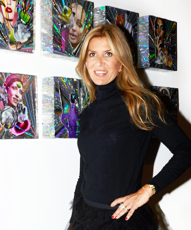 This is a photo of Gloria Porcella in front of Andrea Stanislav's work at Galleria Ca' d'Oro.